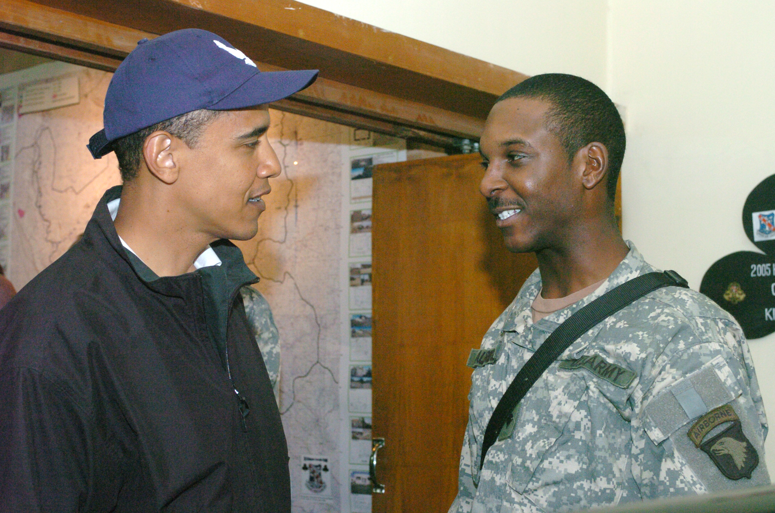 Senator Barack Obama of Illinois talks with a Soldier from the 1st Brigade Combat Team, 101st Airborne Division stationed in Kirkuk, Iraq.